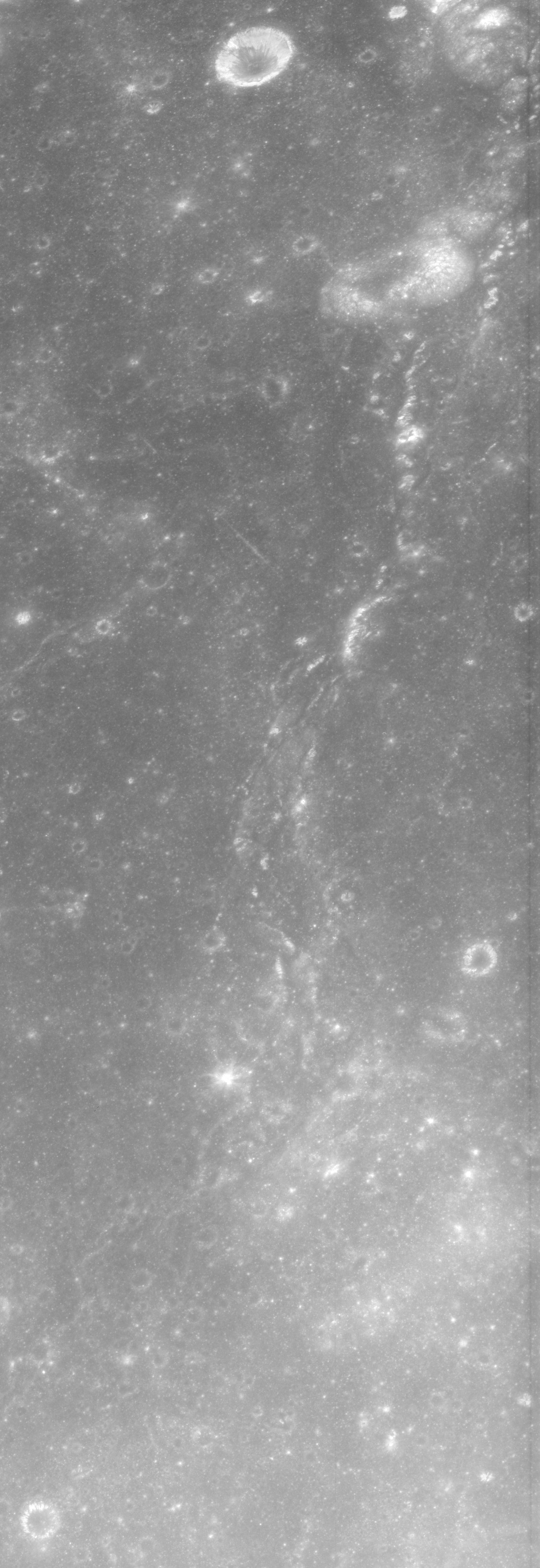 Oblique view of the wrinkle ridge Dorsa Barlow, on the moon. Taken by Apollo 15 panoramic camera.